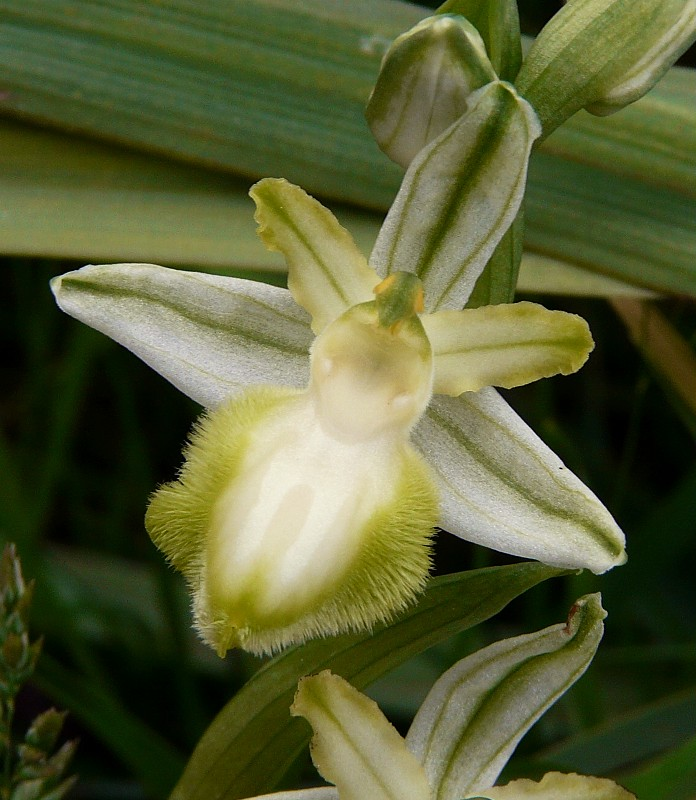 Ophrys sipontensis forma apocromatica